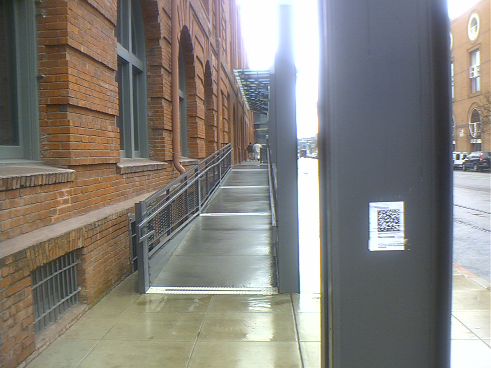 Former Macromedia main office in San Francisco